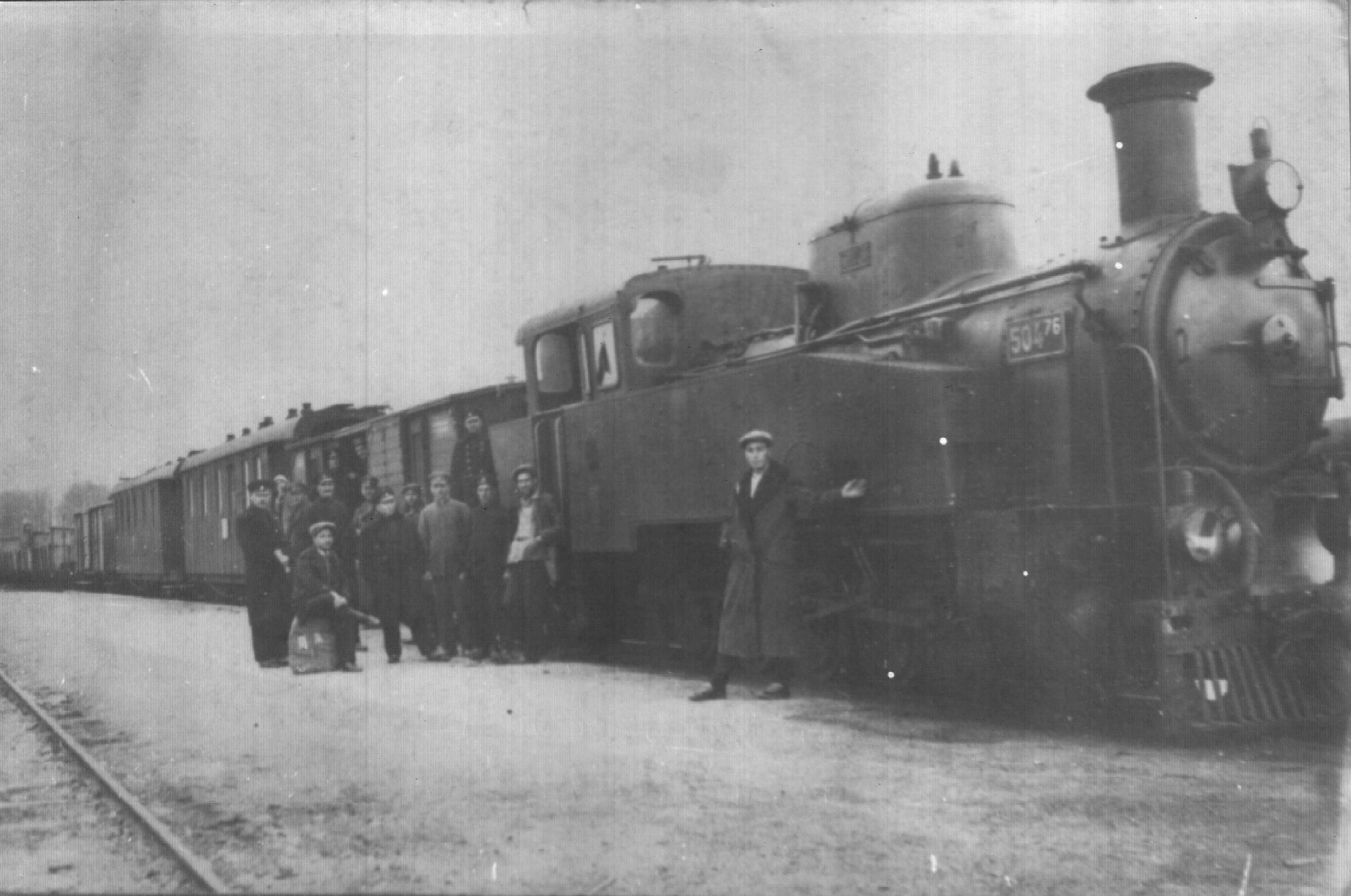 Velingrad Railway Station, 1932.